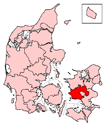 Map of Sorø County 1793-1970